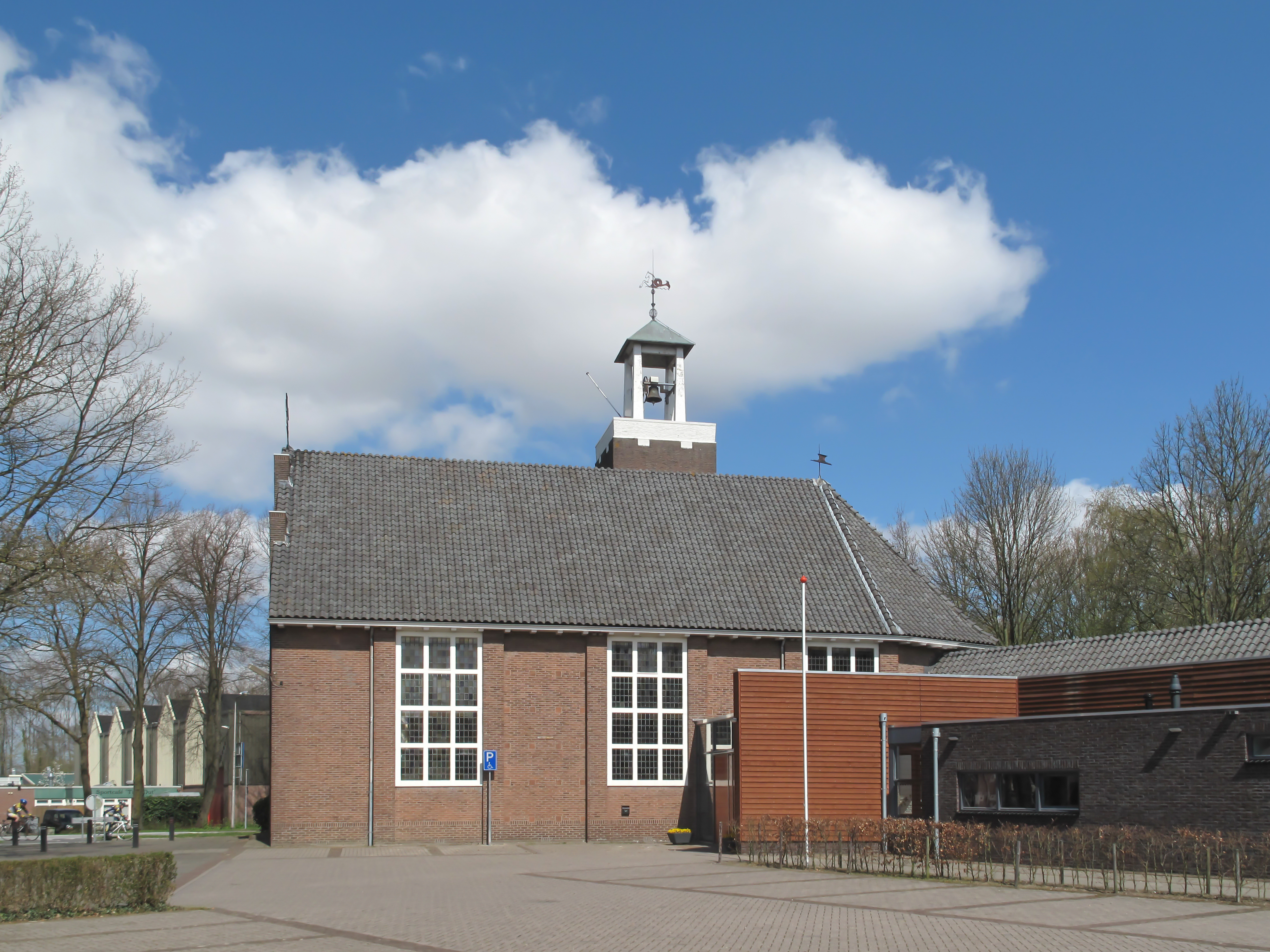 Ens, church